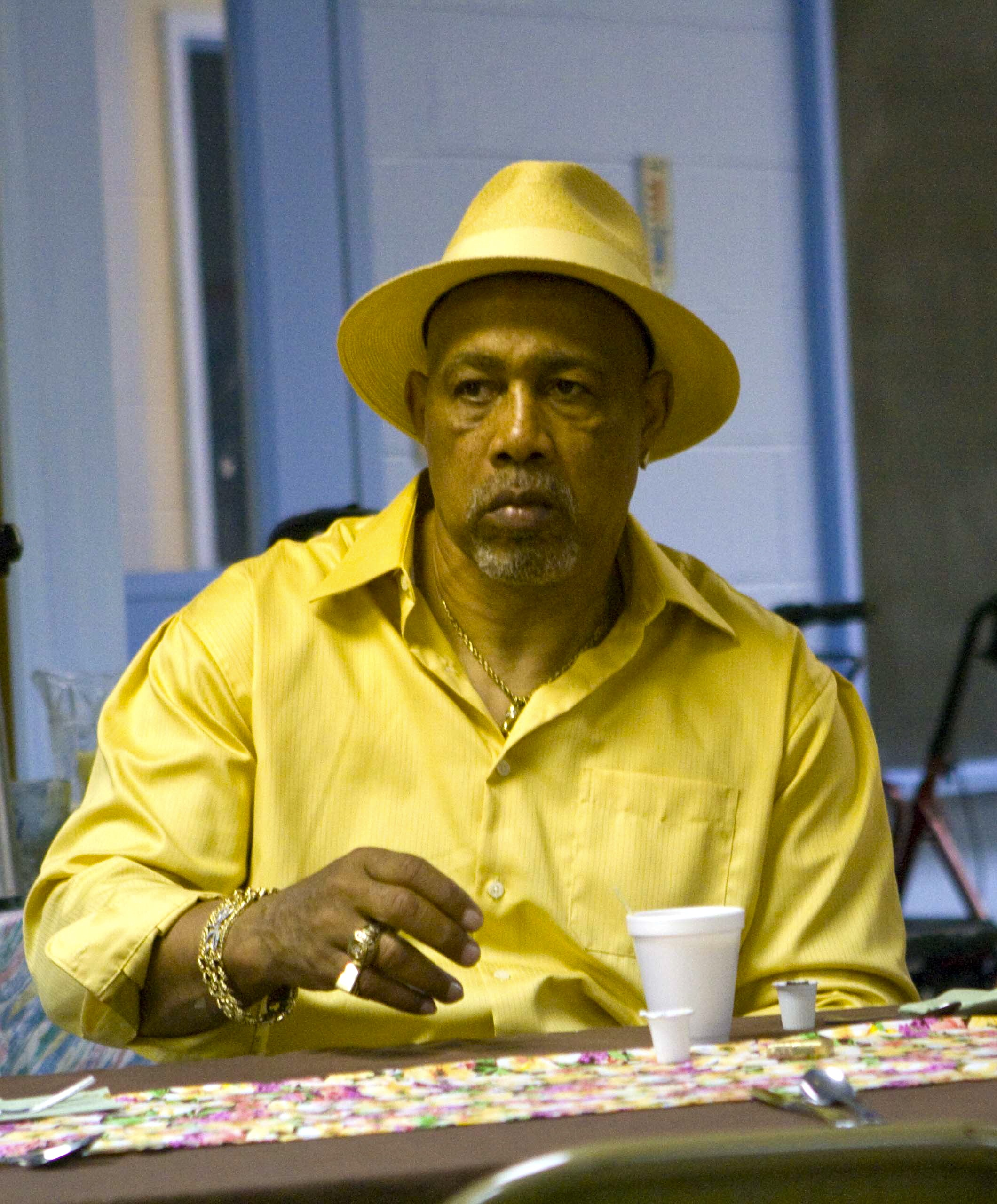 Heavyweight Ken Norton at the 2010 Boxing Hall of Fame Induction in Canastota, New York.